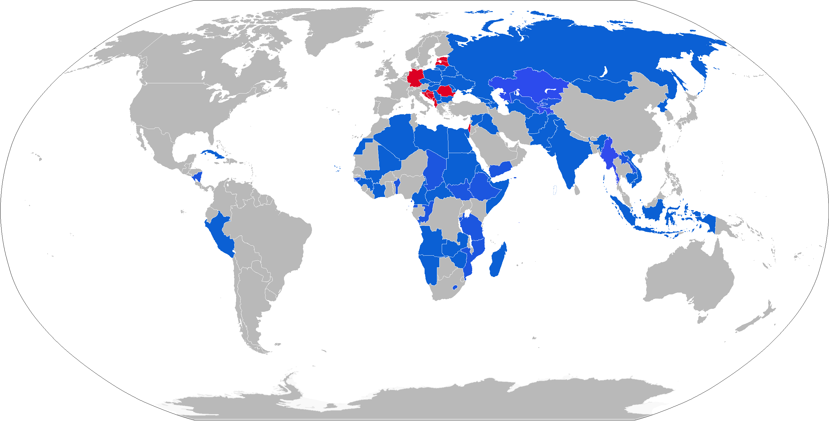 Map of BRDM-2 operators in blue with former operators in red